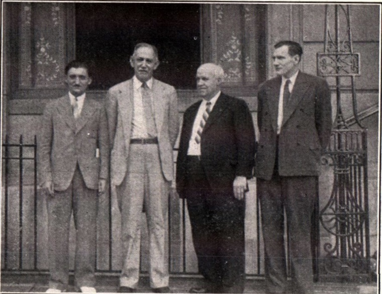 Four new members of the American Numismatic Association board of governors, identified as Boosel, Hoffecker, Ripstrs and Kortjohn.